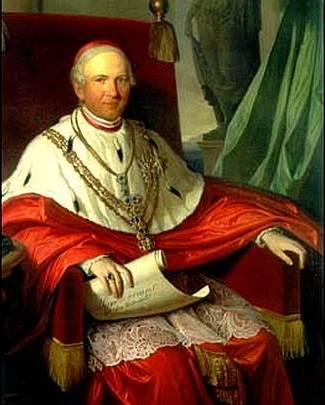 Catholic cardinal Juraj Haulik (1788-1869)